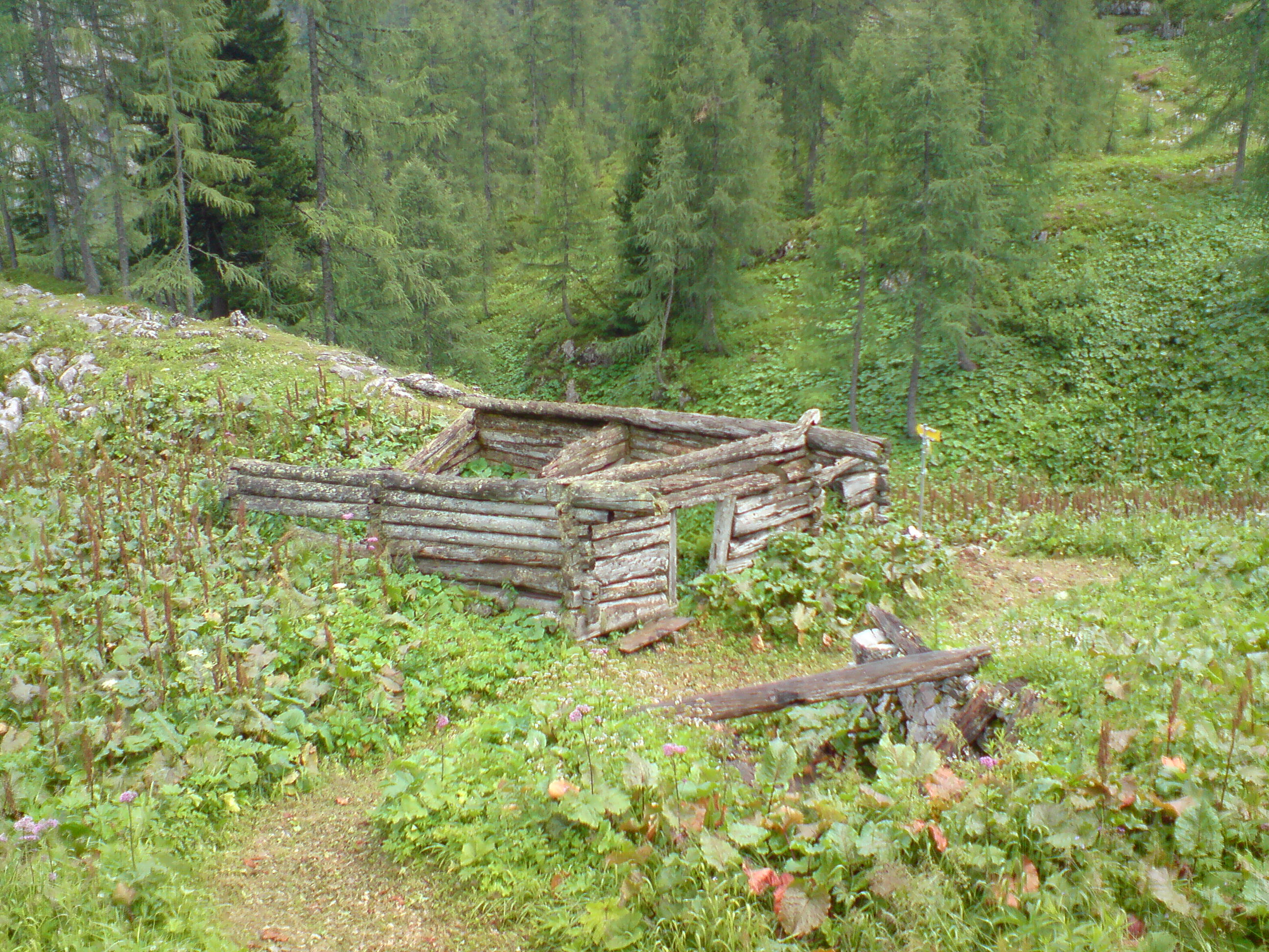 The Hinterschlumalm in the austrian Hagengebirge.